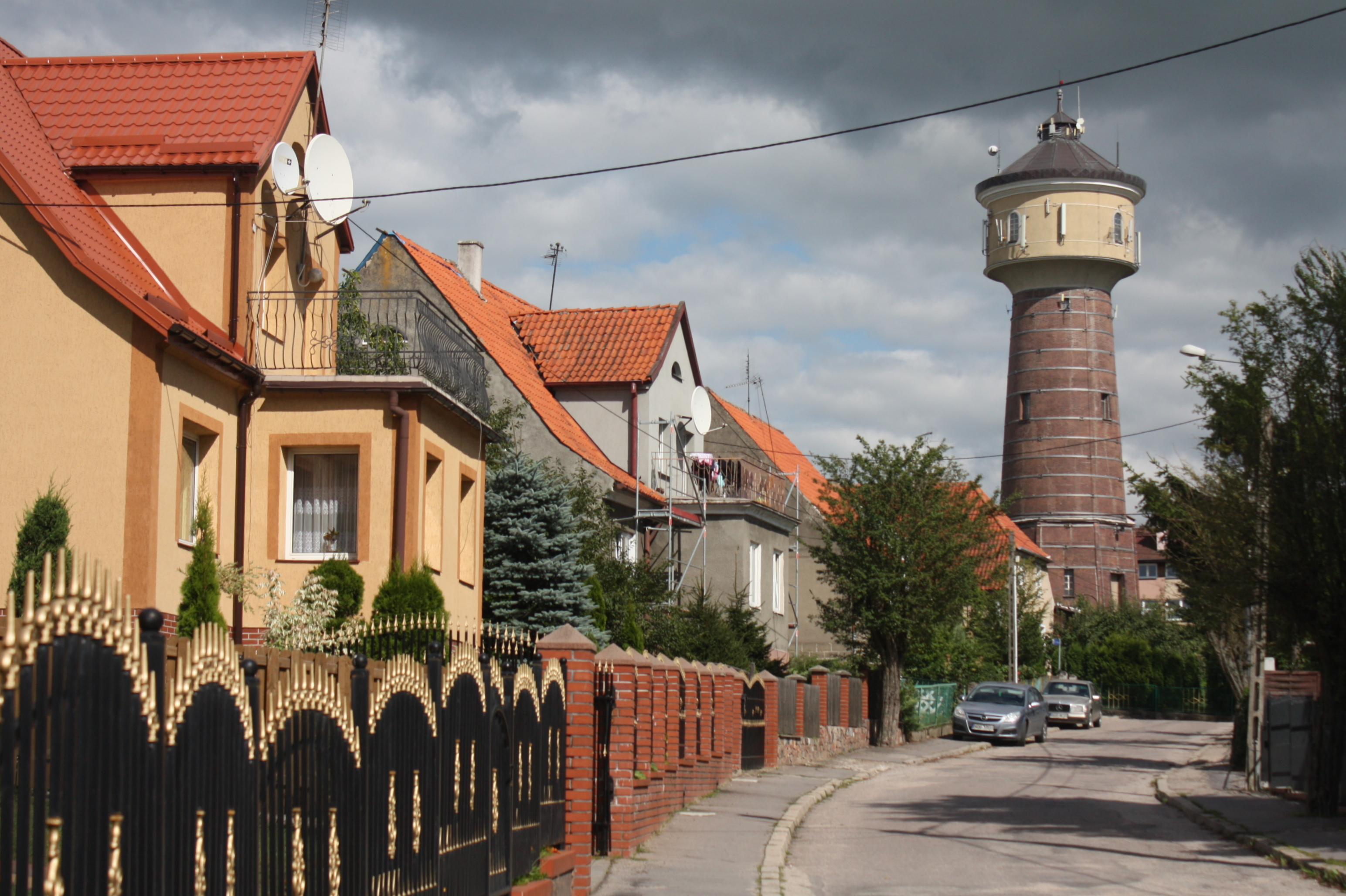 This photo of Warmian-Masurian Voivodeship was taken during Wikiexpedition 2012 set up by Wikimedia Polska Association. You can see all photographs in category Wikiekspedycja 2012. The making of this document was supported by Wikimedia Polska.